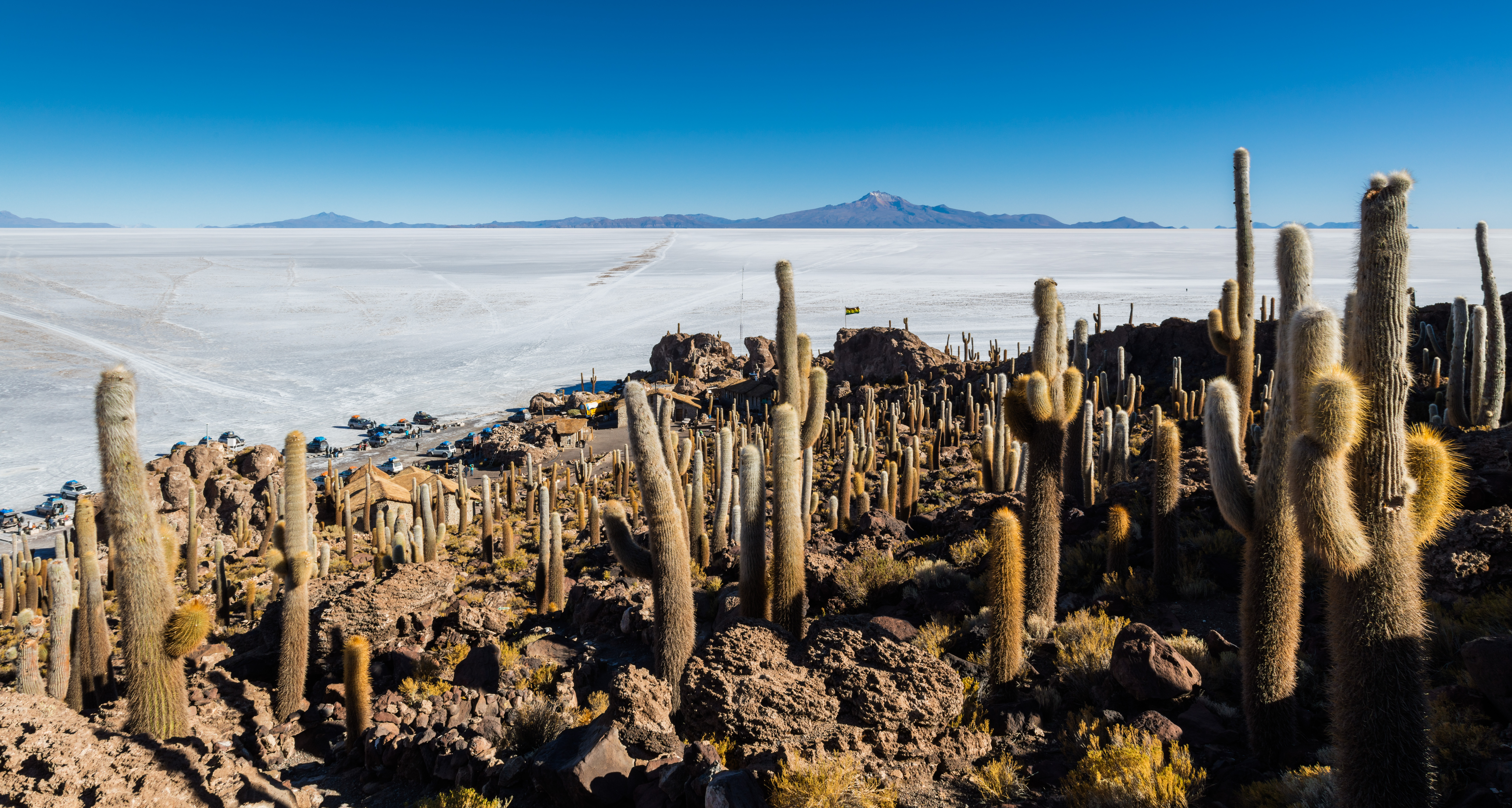 View of the Salar de Uyuni, the surrounding mountains and giant cactuses (Echinopsis atacamensis) in Incahuasi island, Daniel Campos Province, Potosí Department, southwest Bolivia, not far from the crest of the Andes. This salt flat is, with a surface of 10,582 square kilometers (4,086 sq mi), the world's largest.